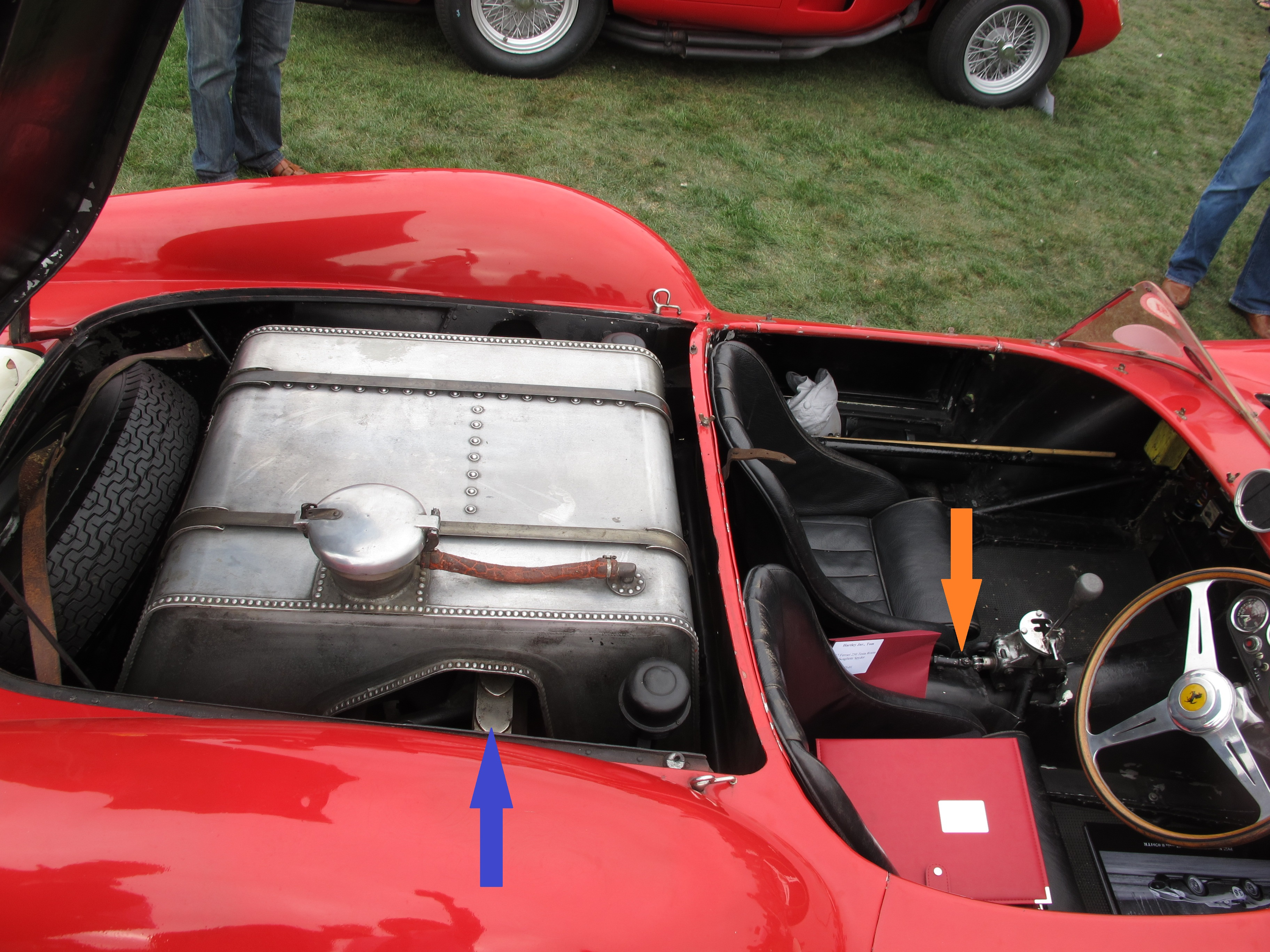 Taken at Pebble Beach Concours. The Ferrari 250 Testa Rossa 1957 - 1958 factory team cars used rear mounted transaxles with de Dion rear suspension. Orange arrow shows unique shifter shaft. Blue arrow shows transverse leaf spring for rear suspension.